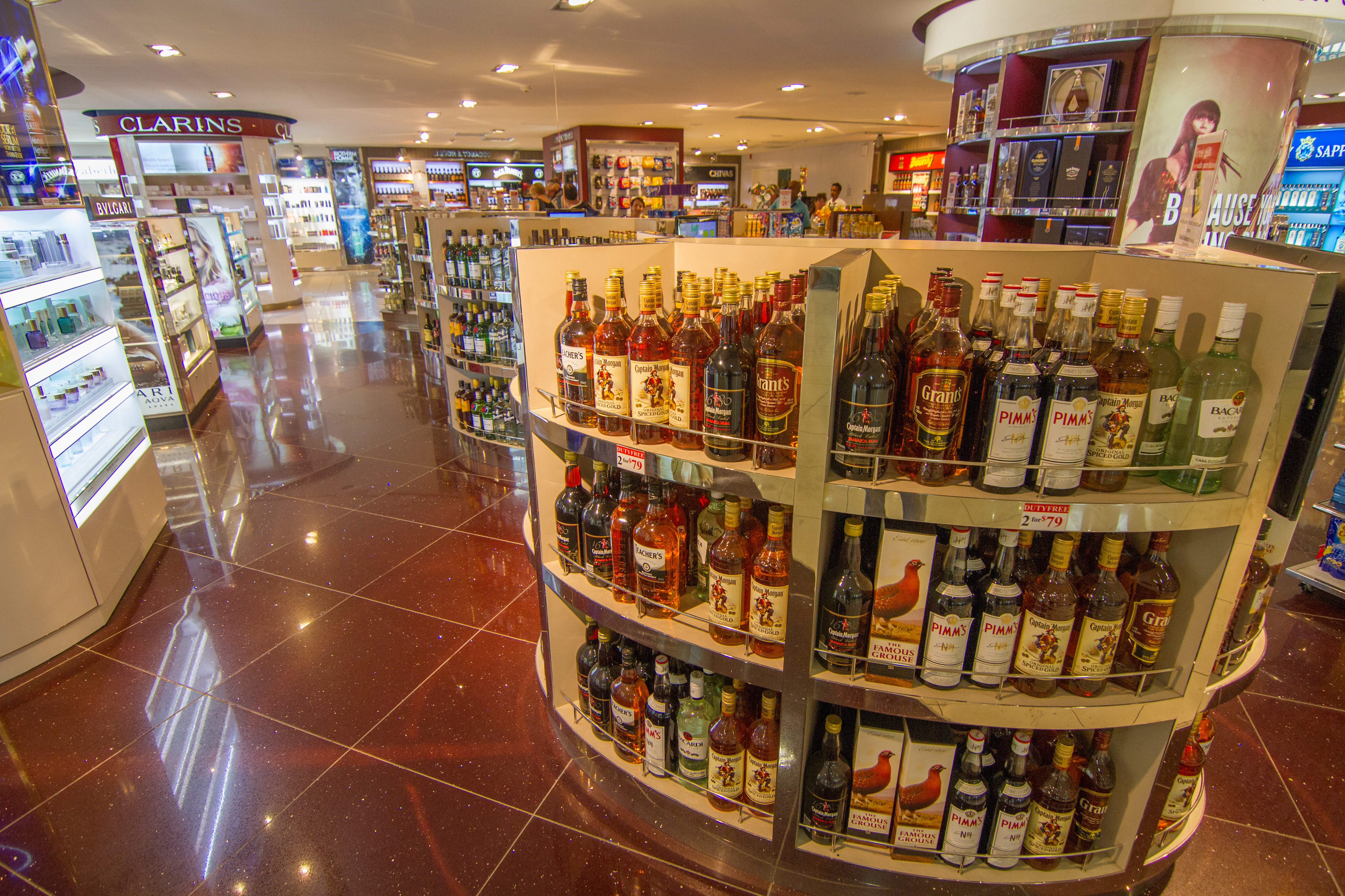 Nadi International airport, Fiji